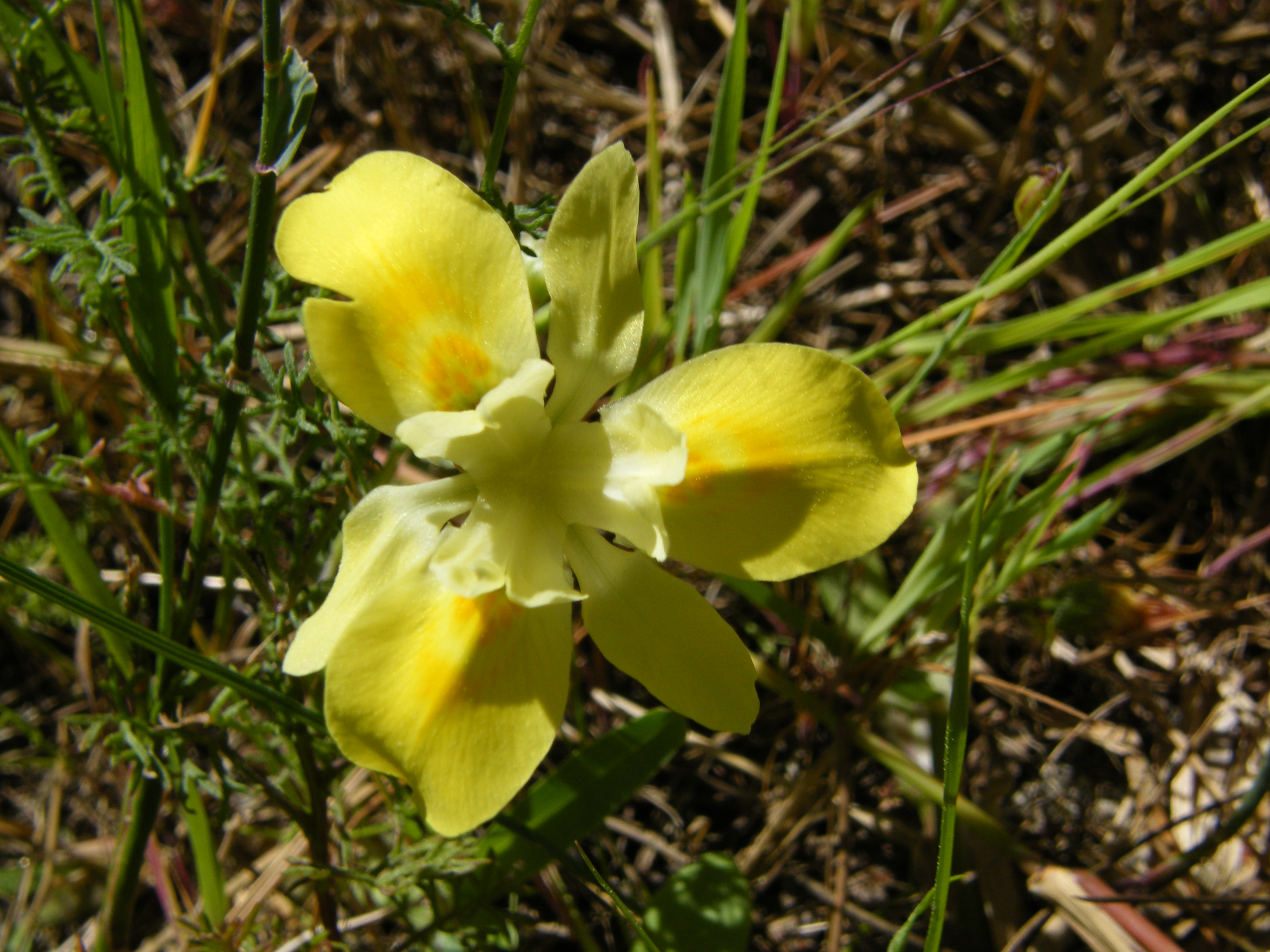 Moraea ramosissima, Rondebosch common Cape Town